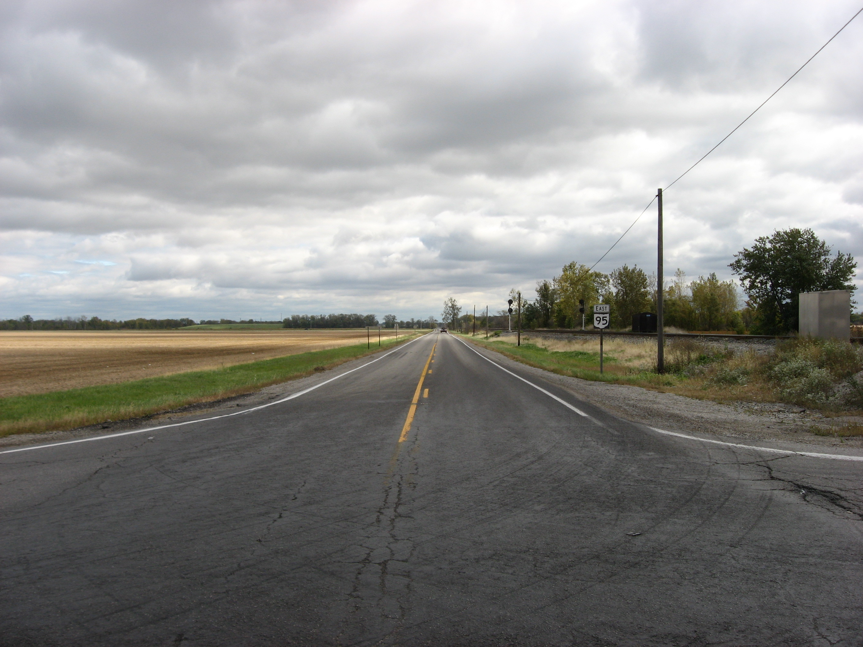 Eastward along State Route 95 from its intersection with State Route 203 in Big Island Township, Marion County, Ohio, United States.